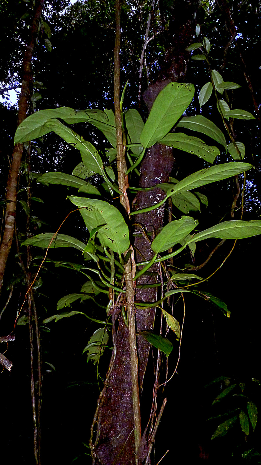 Philodendron blanchetianum Schott